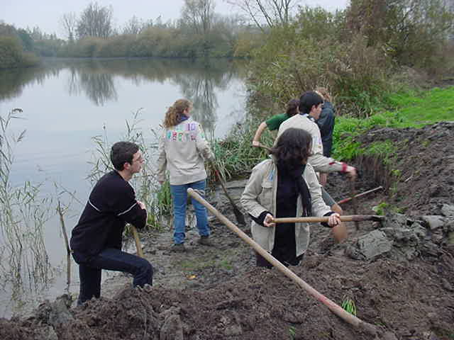 Digging a wall for kingfishers to build their nests in.